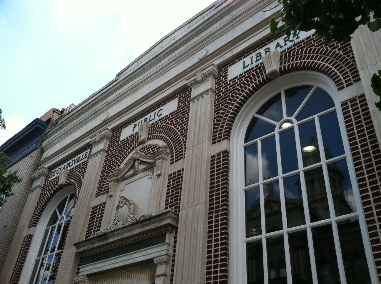 Image of the St. Clairsville Public Library